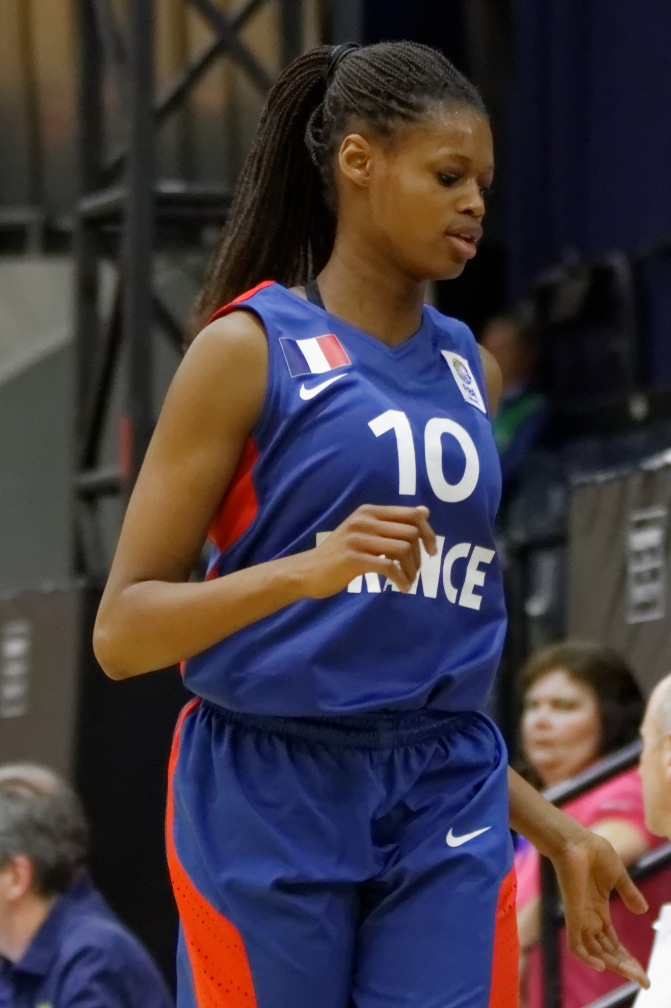 EuroEssonne, France - Canada, 7 June 2013.